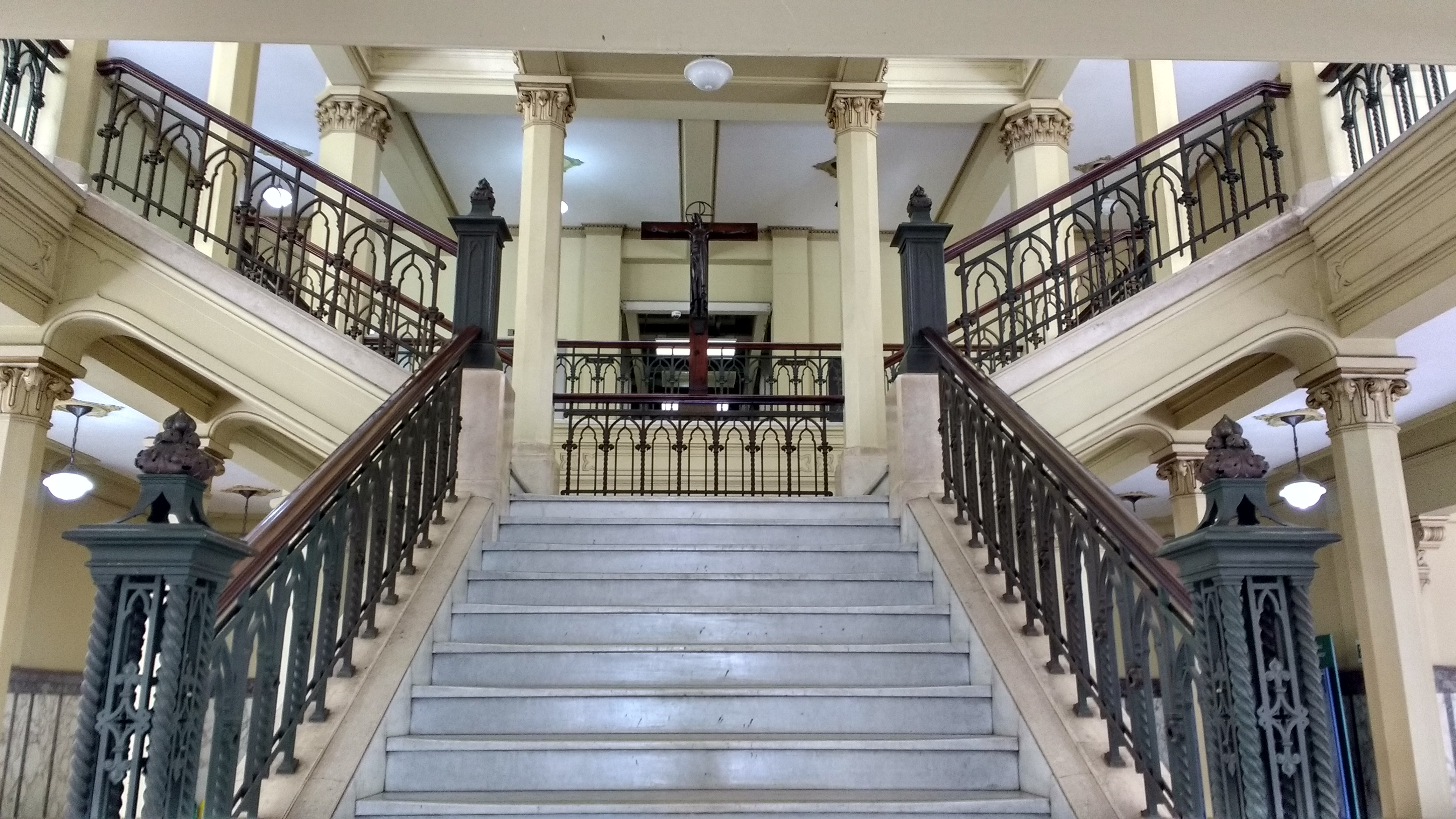 First floor stairwell of the college's main building.